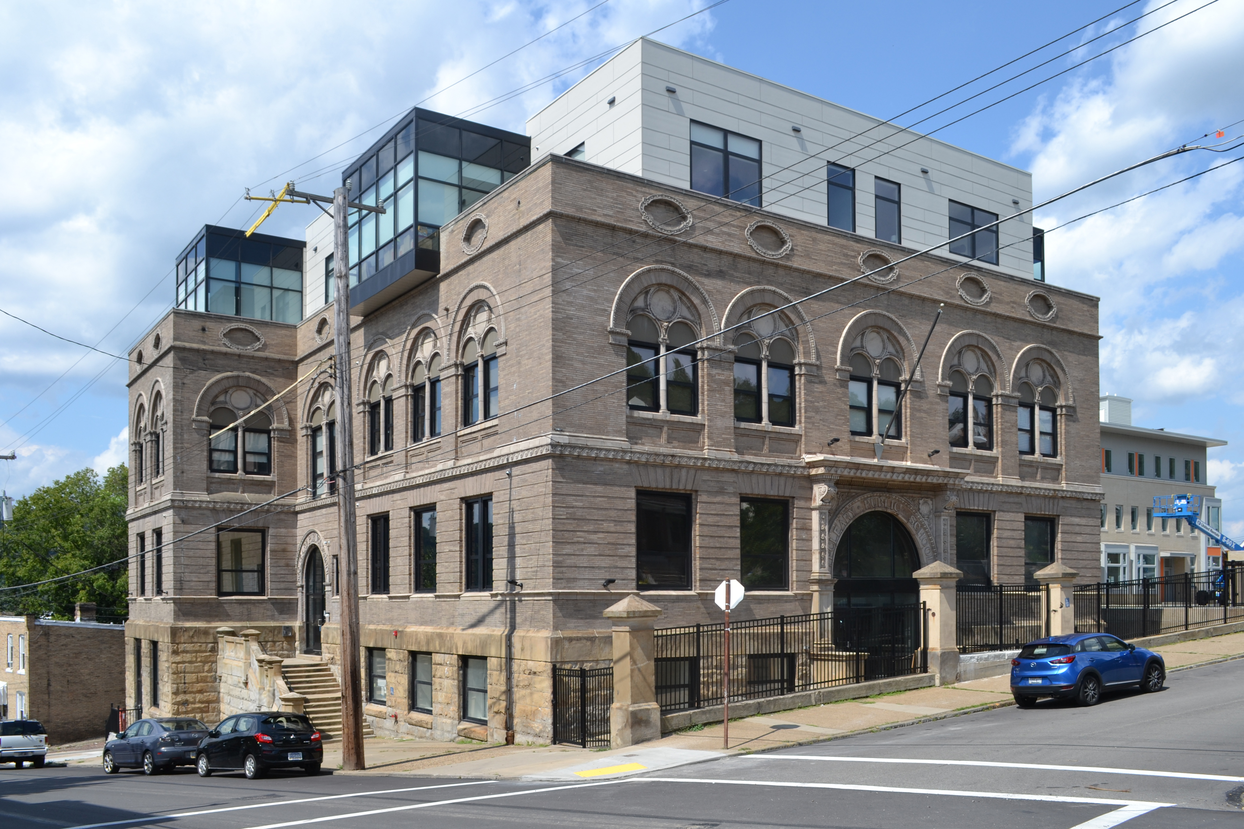 The former McCleary School building in the Lawrenceville neighborhood of Pittsburgh, Pennsylvania, USA.